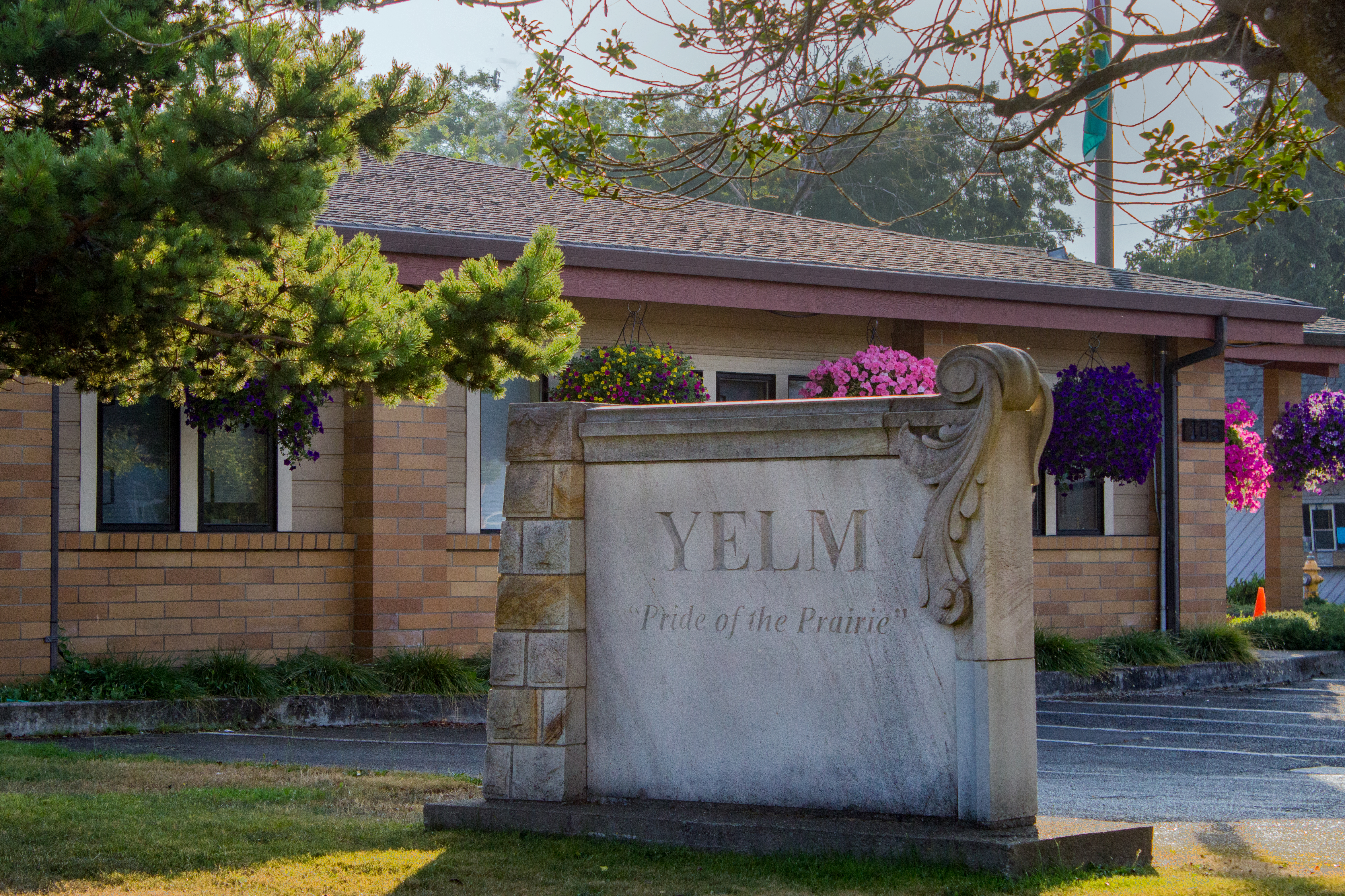 The city hall building in Yelm, Washington.